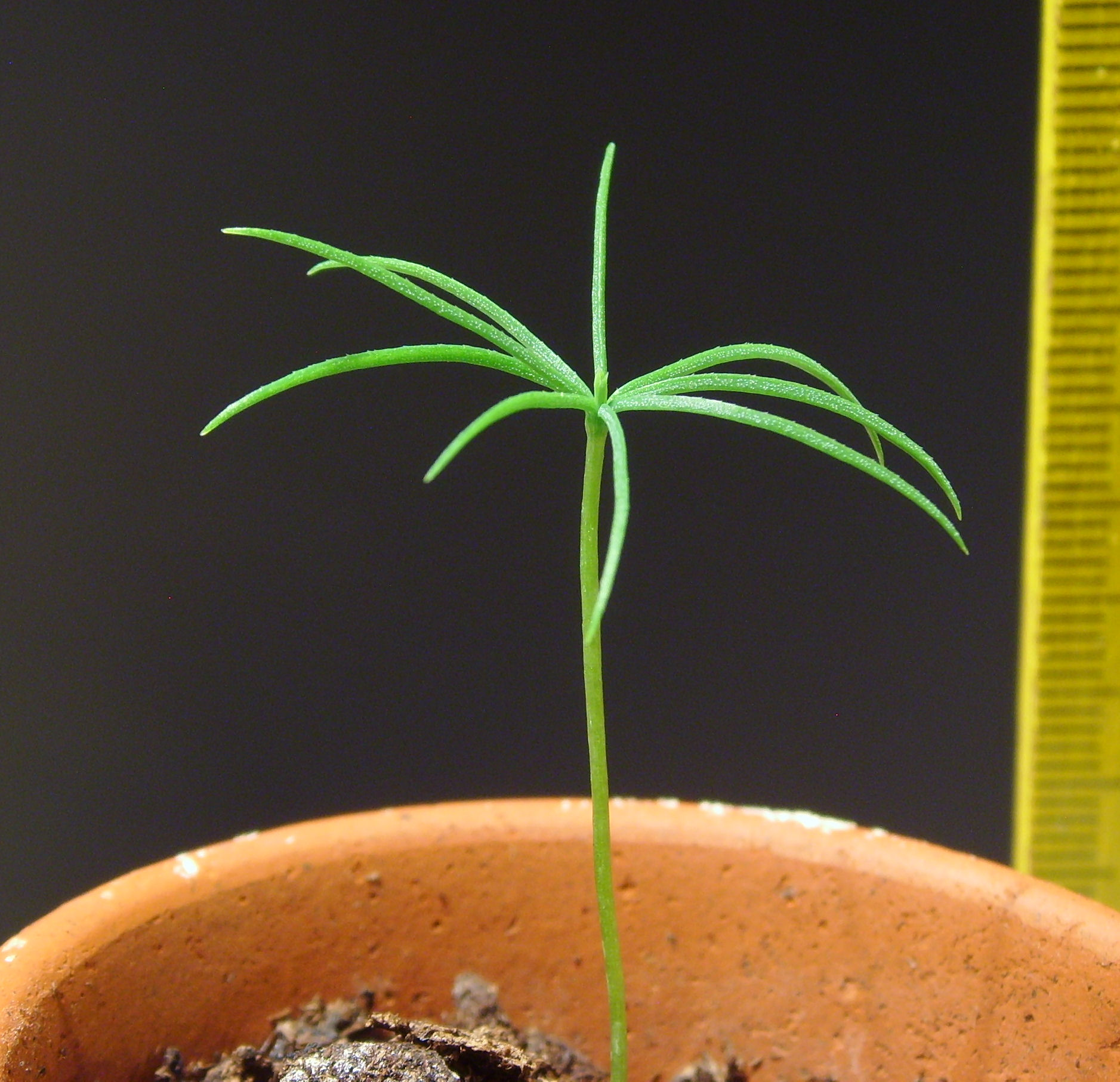 Norway Spruce (Picea abies): seedling, 20 days old. Scale: millimeters